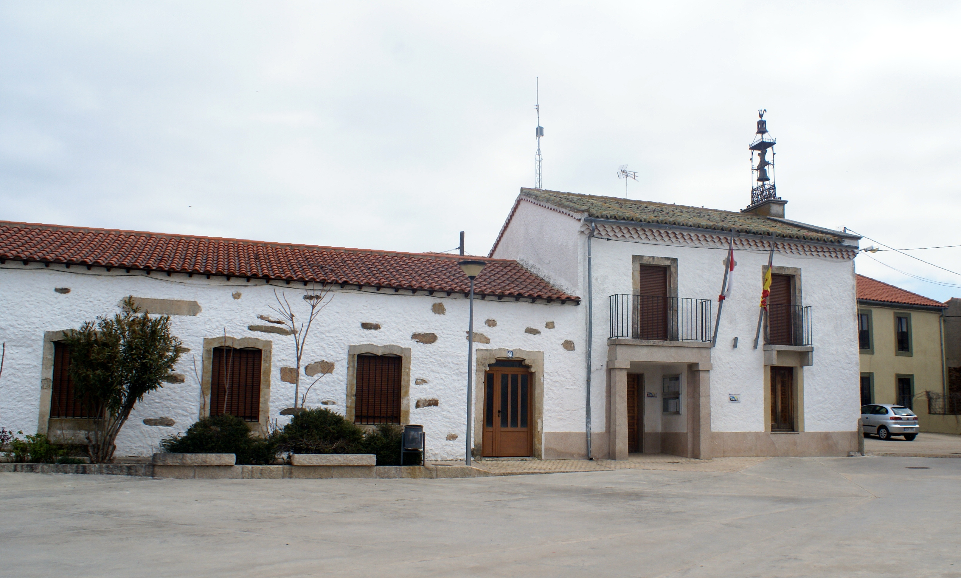 Town hall in Villarmayor, Salamanca, Spain.